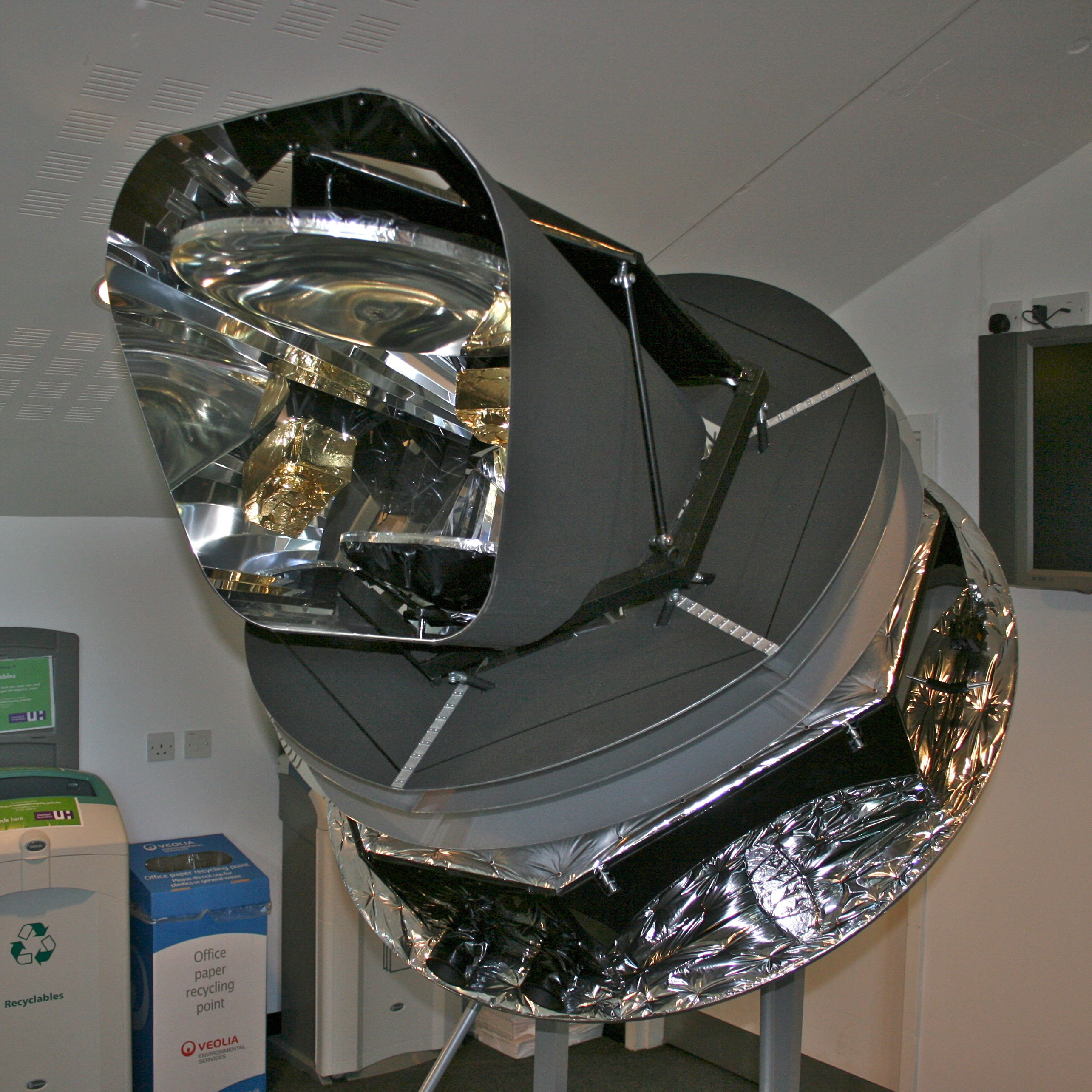 Model of the Planck Satellite. Photographed at the Royal Astronomical Society's National Annual Meeting 2009.